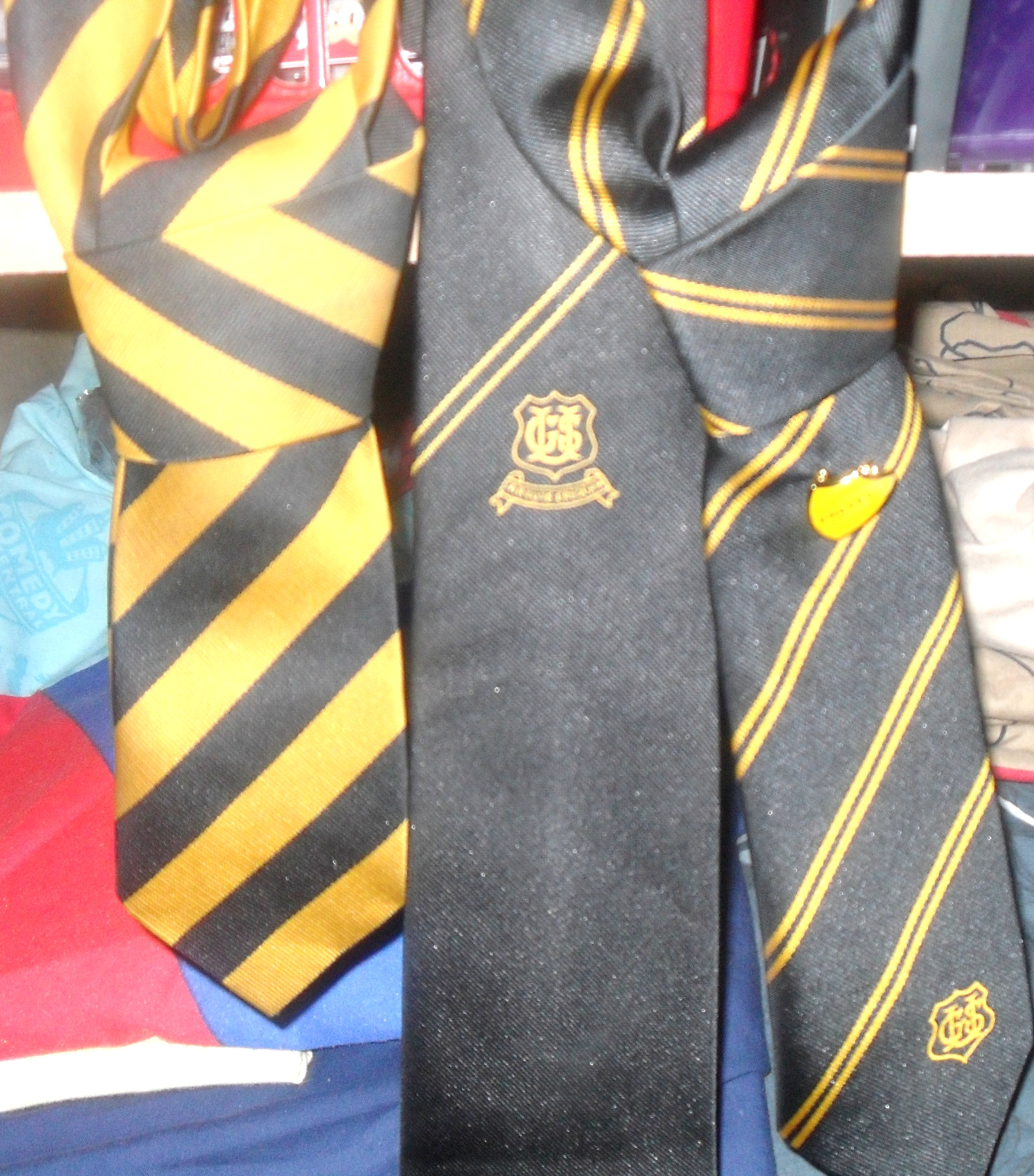 All Of The Ties Worn Uddingston Grammar [Junior Tie, Senior Tie, Prefect Tie]